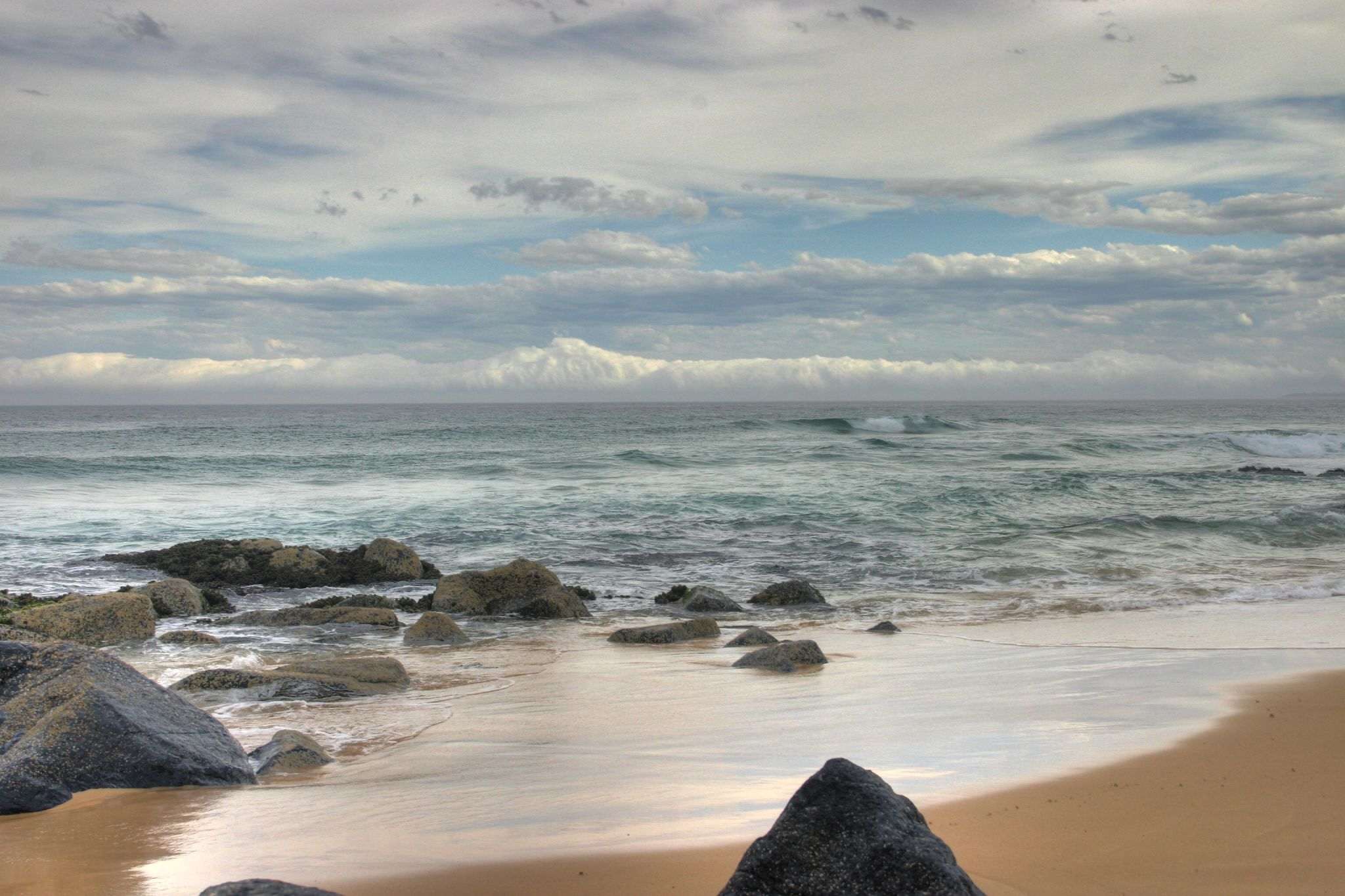 HDR image taken at 1080 Beach in the Eurobodalla National Park near Narooma.